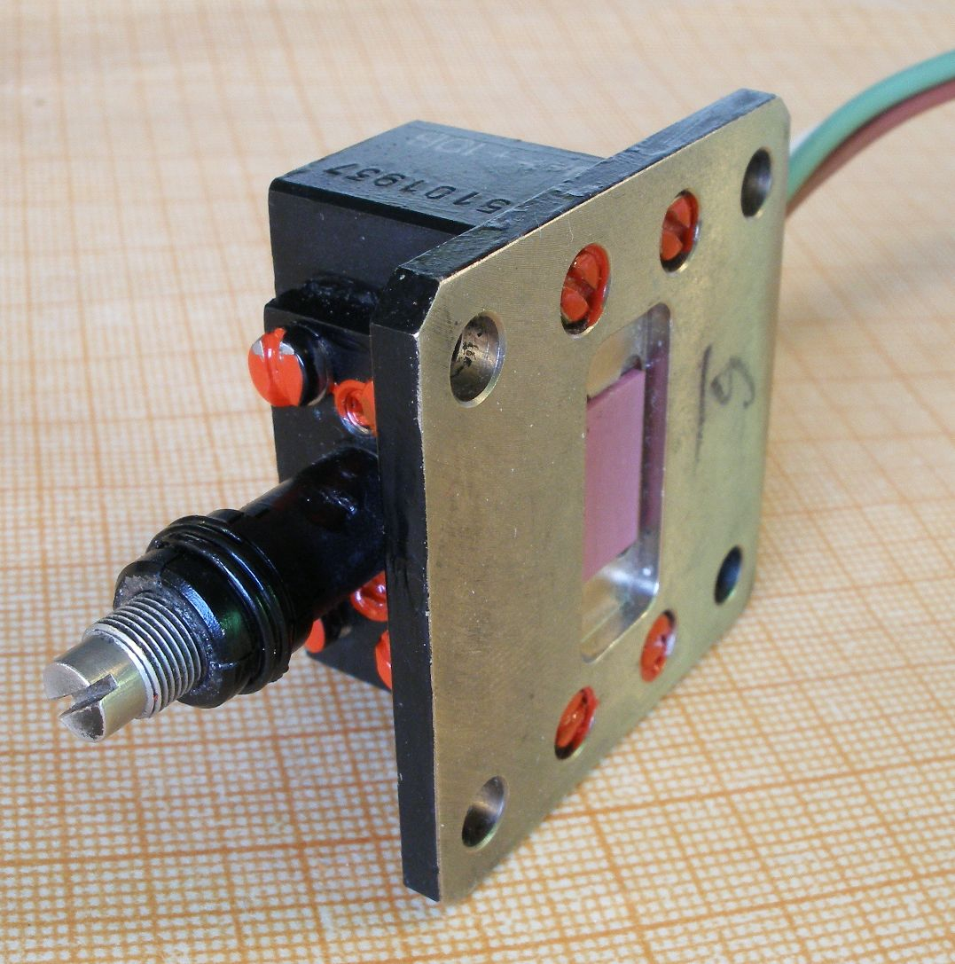 A Gunn diode microwave oscillator M31102-1. It consists of a Gunn diode mounted in a cavity resonator, biased with a DC voltage supplied by the wires in the background. The negative resistance of the diode cancels the positive resistance of the cavity, exciting microwave oscillations at the resonant frequency of the cavity. The microwaves radiate out the aperture into a waveguide which is bolted to the front (not shown). The frequency of the waves produced can be changed by adjusting the thumbscrew, which changes the size and thus the resonant frequency of the cavity.